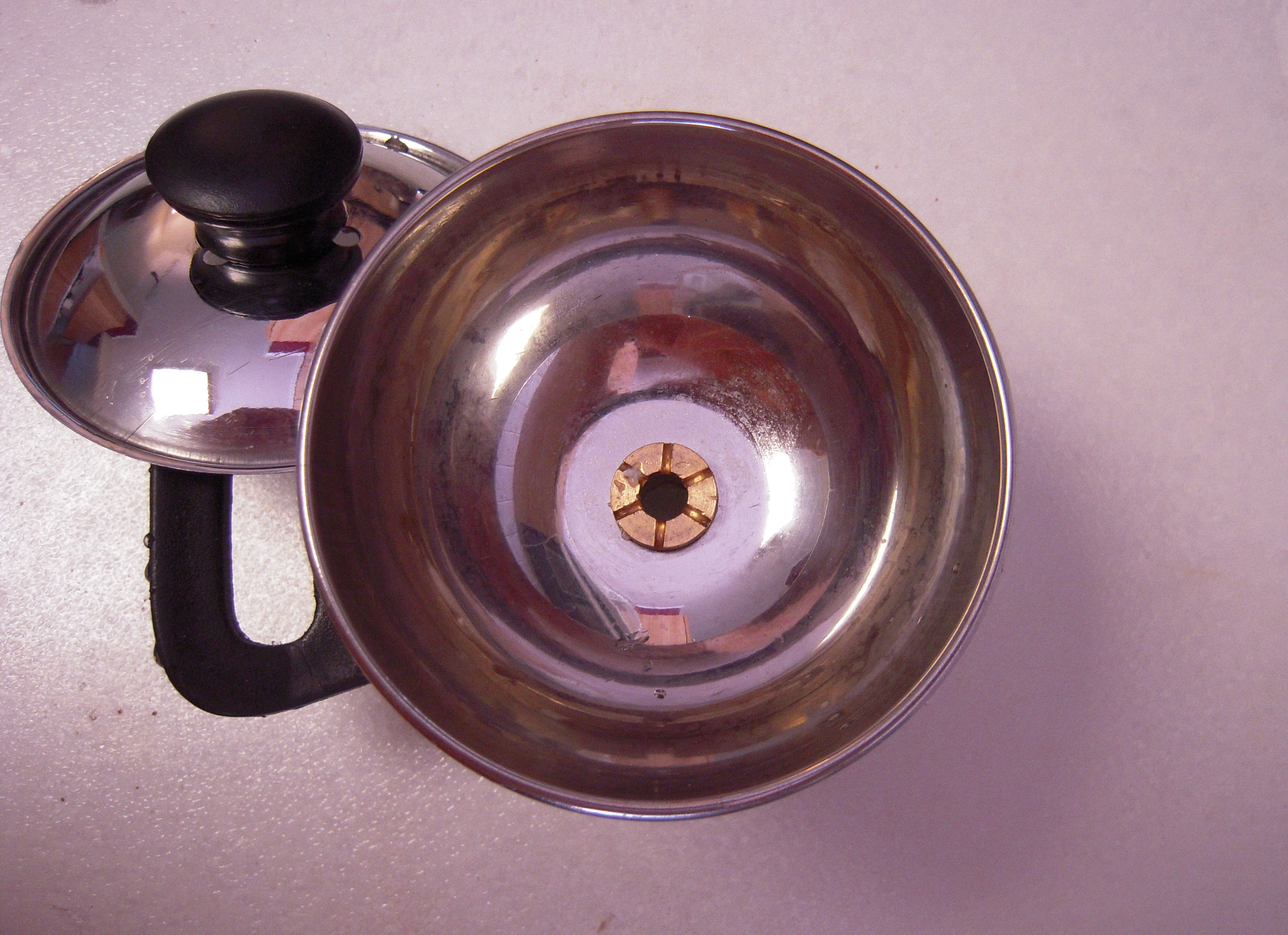 Chirratu Puttu steaming vessel made up of steel - top view with lid removed.